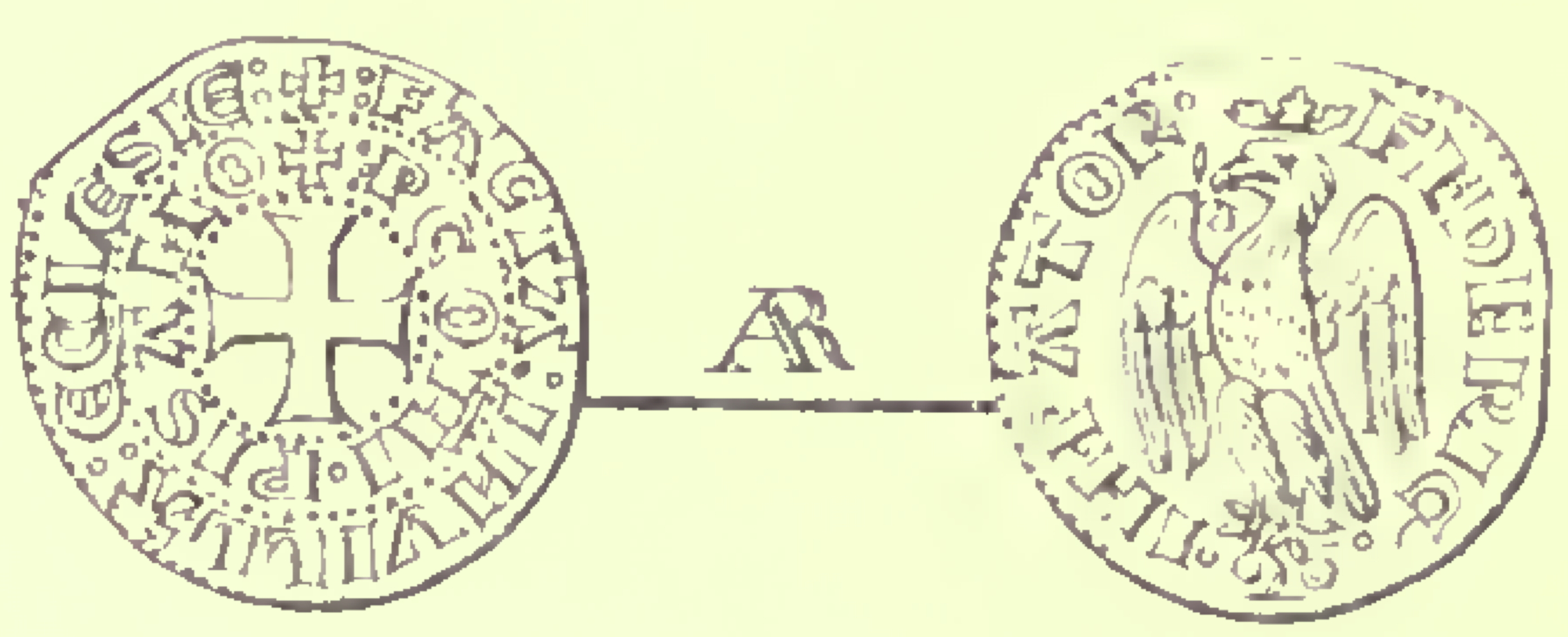 Image from Rivista italiana di numismatica 1892 pag. 124 (../128) coin minted in Iglesias by the republic of Pisa.